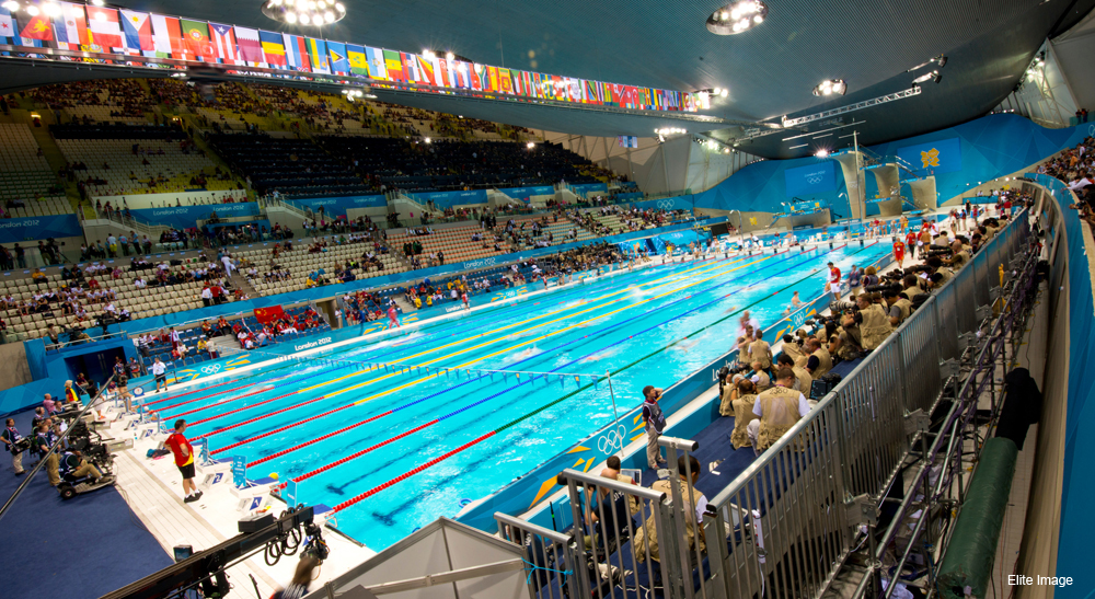 View of the 50m swimming pool at the Aquatics Centre